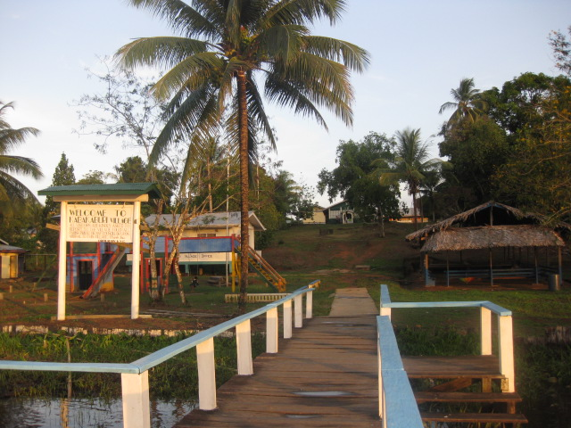 Photograph of the entrance to Kabakaburi Village, Guyana